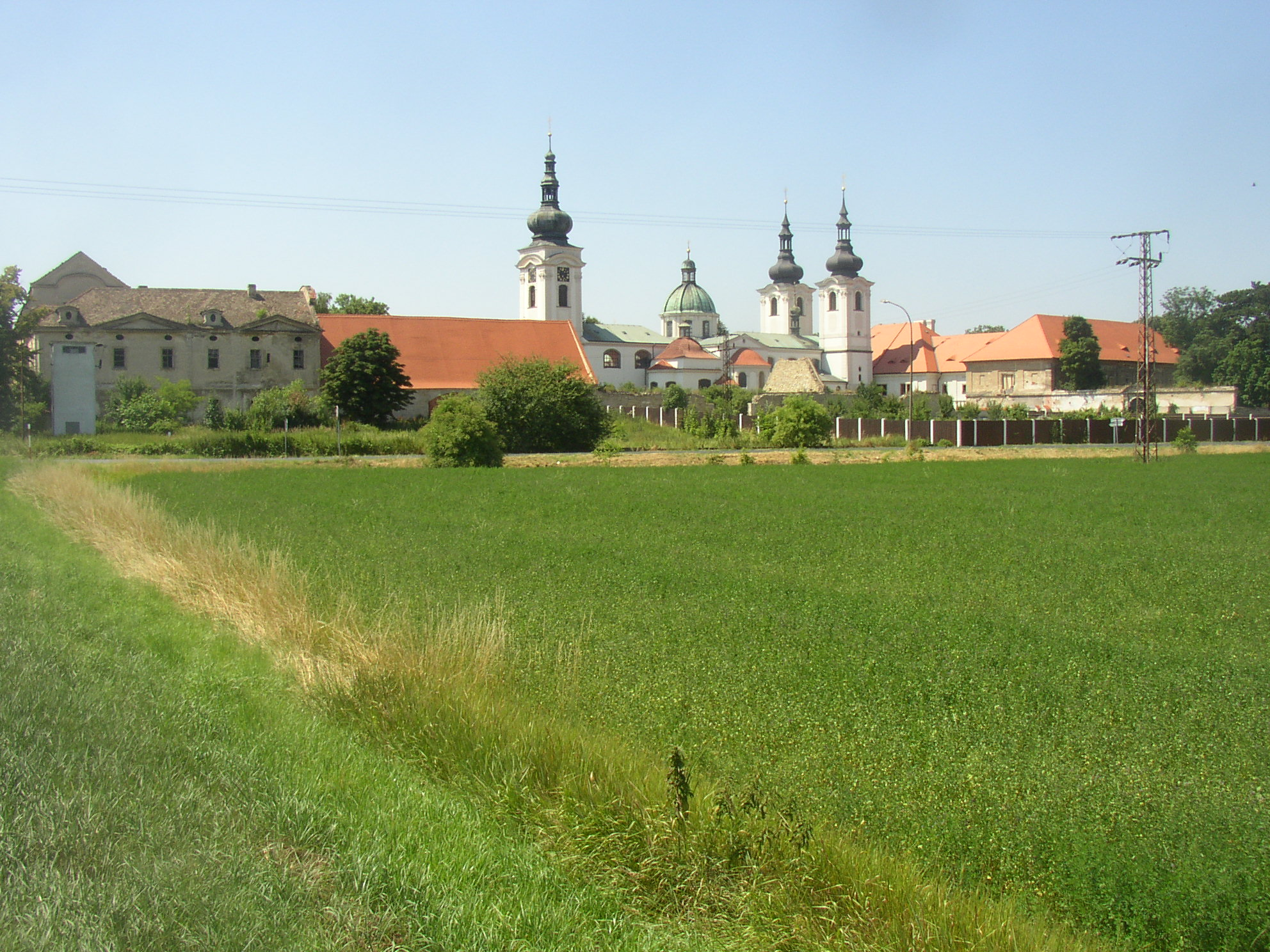 Doksany Convent , Litoměřice District, Czech Republic. A general view of the convent with Romanesque-Baroque church of the Nativity of the Virgin Mary from the northeast, from Doksany-Dolánky road.